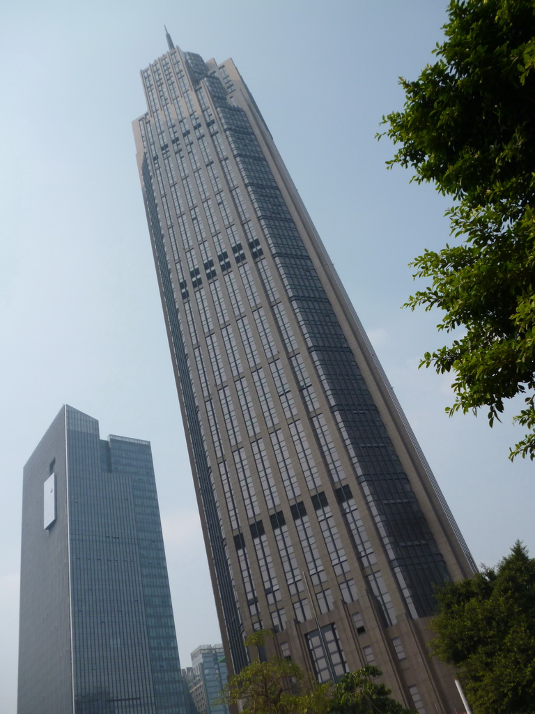 The Pinnacle Tower @ Teanhe, Guangzhou, Guangdong, China